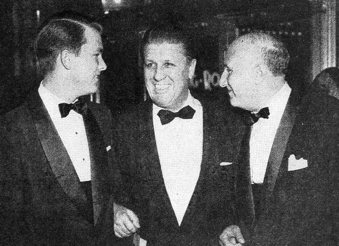 Photo of George Stevens (at center) with his son, George Stevens, Jr. (at left) and Dimitri Tiomkin at the premiere of the film Giant. Stevens directed the film and Tiomkin whote the score for it.